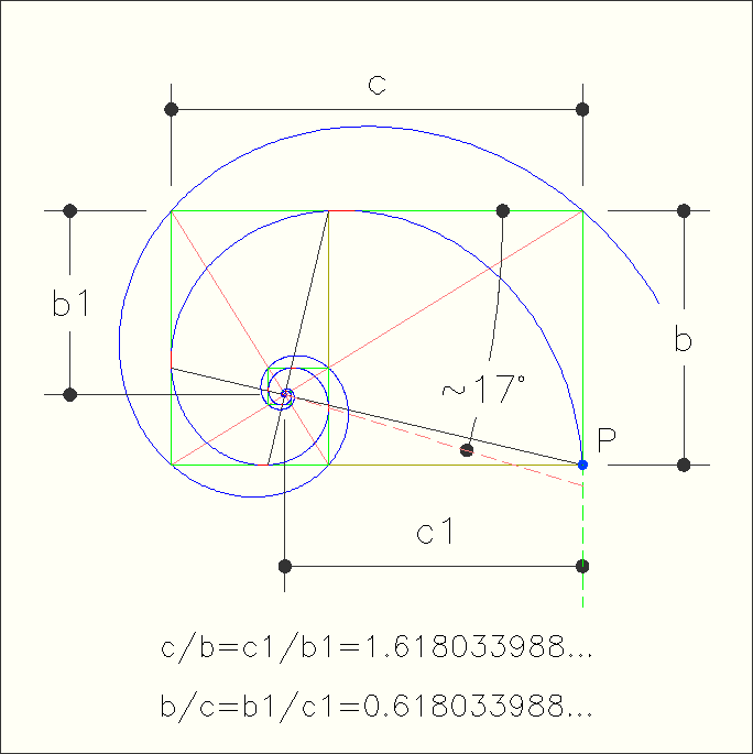 Note the two diagonals that identify the origin of the three spirals. The golden polygonal has sides that decrease according to the golden ratio. The other two spirals are one circumscribed and the other inscribed in the polygonal. The inscription starts from the same point (P) from which the quarter circumferences which approximate the golden spiral are started. As highlighted by the red strokes, the golden spiral if it starts in (P) protrudes from the polygonal, this shows that, unlike the approximate version, it cannot start or pass through (P). The correct tangency point with the polygonal is therefore anticipated with respect to (P), as well as for the following sides.